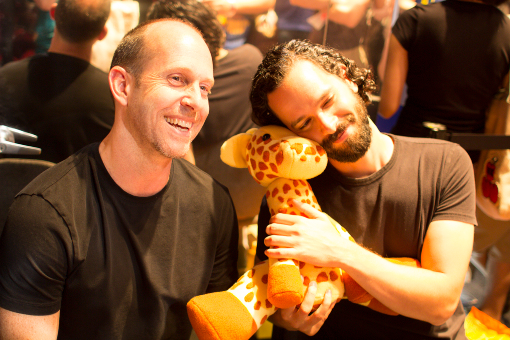 Bruce Straley and Neil Druckmann at PAX Prime 2014.